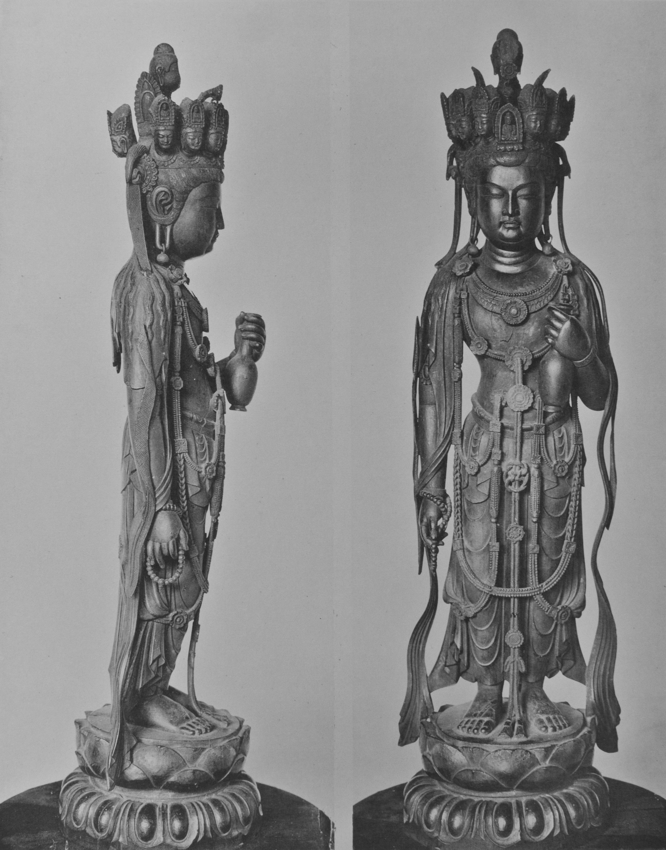 Treasure Hall, Hōryū-ji, Nara, Japan